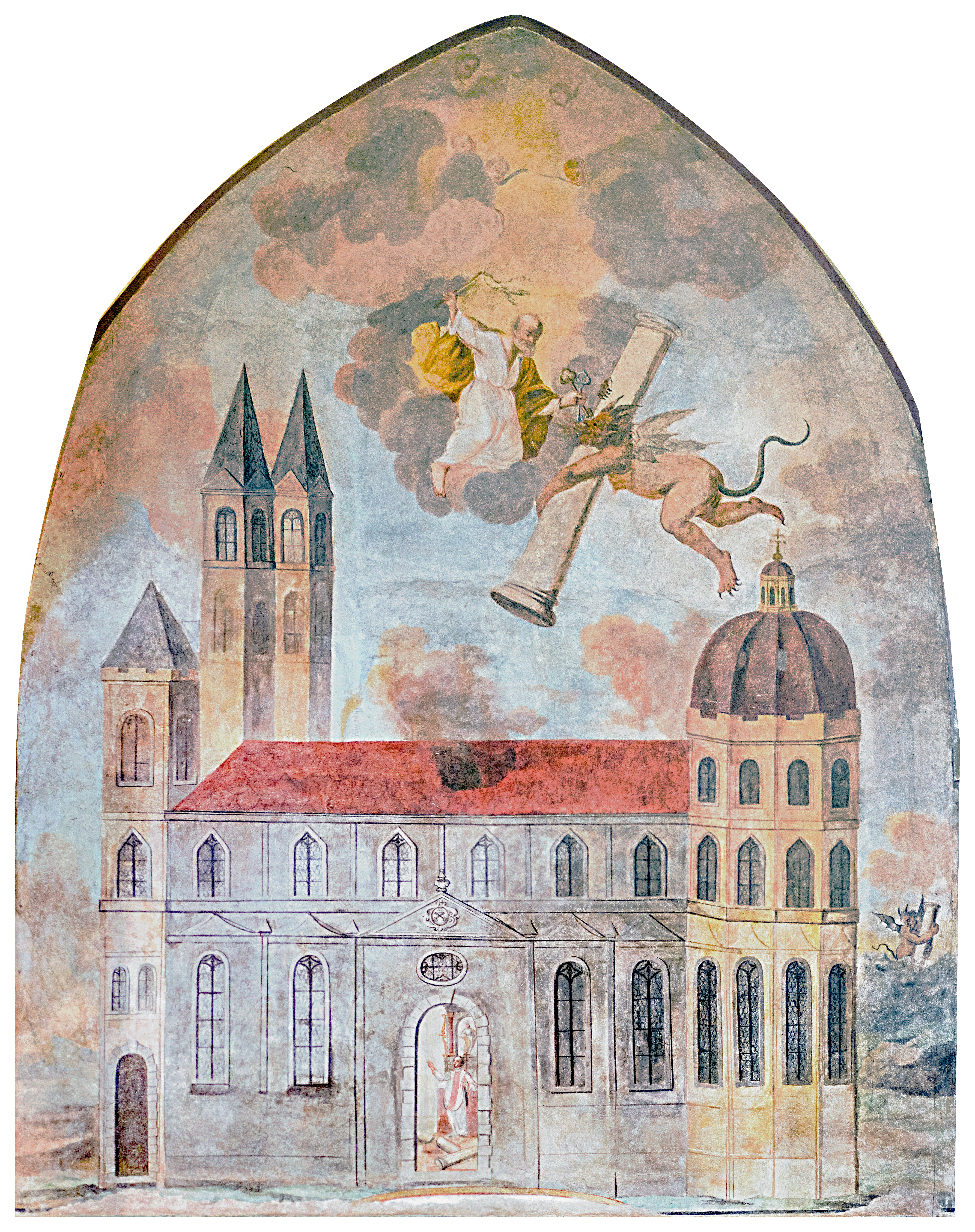 Gothic fresco in Basilica of St Peter and St Paul. Vysehrad, Prague